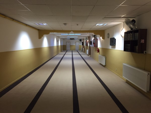 De-Koepel mosque prayer room